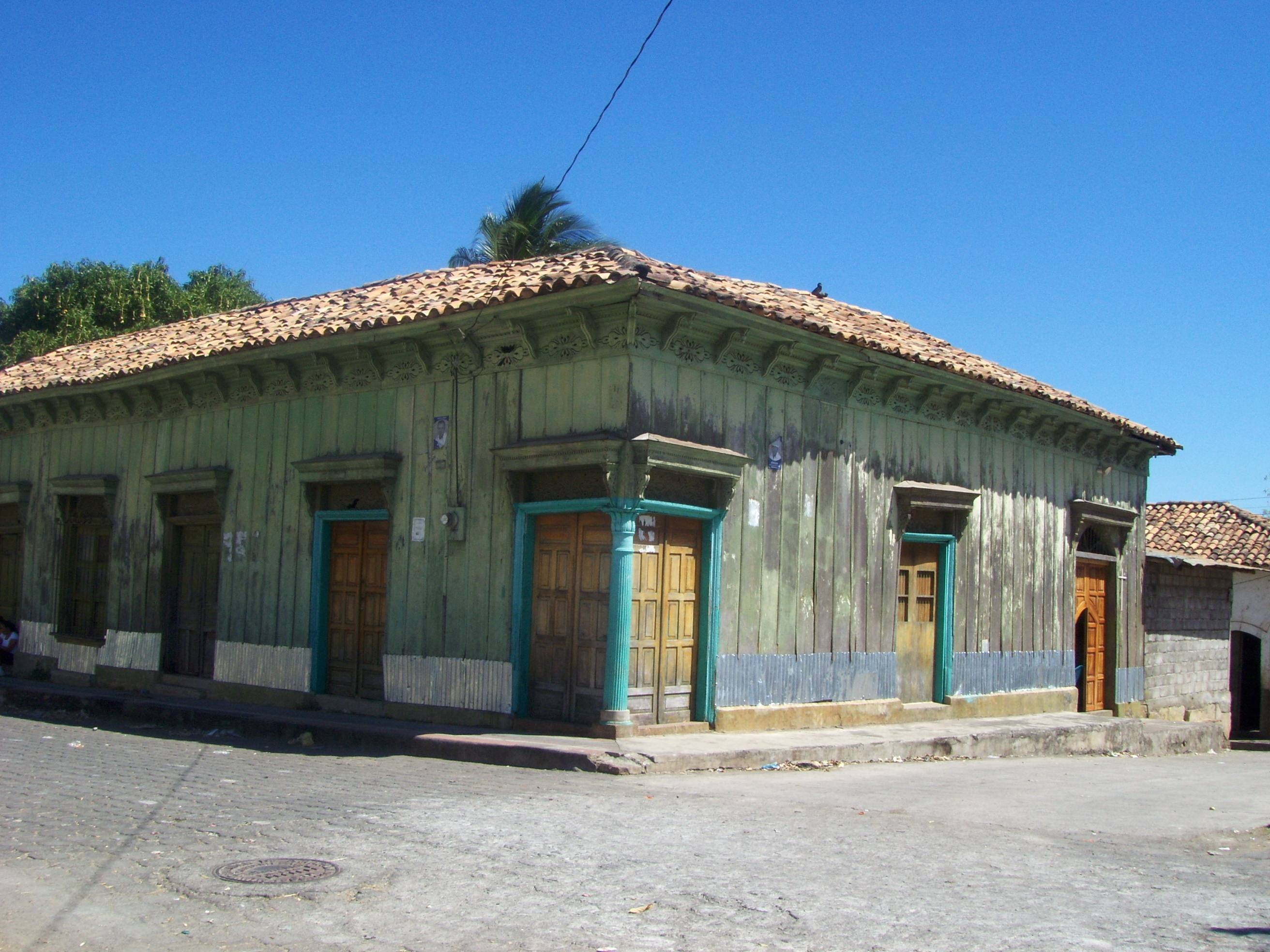 Building in the plaza of Amapala, a municipality in the Honduran department of Valle.